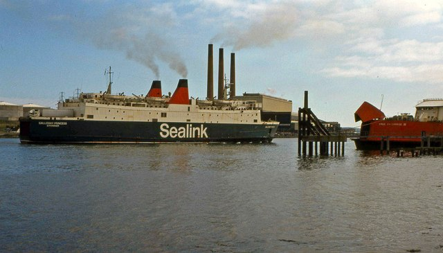 The "Galloway Princess" at Larne The “Galloway Princess” was built by Harland & Wolff, in 1980, for service on the Larne – Stranraer route. She is seen arriving at Larne with the 12.00 from Stranraer. The “Free Enterprise IV” can be seen (right) at the Continental Quay.